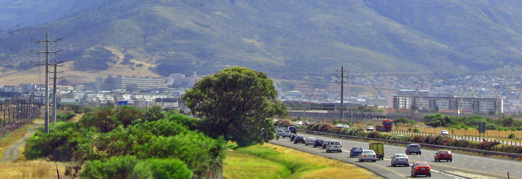 The N1 freeway as it enters Cape Town past Century City.